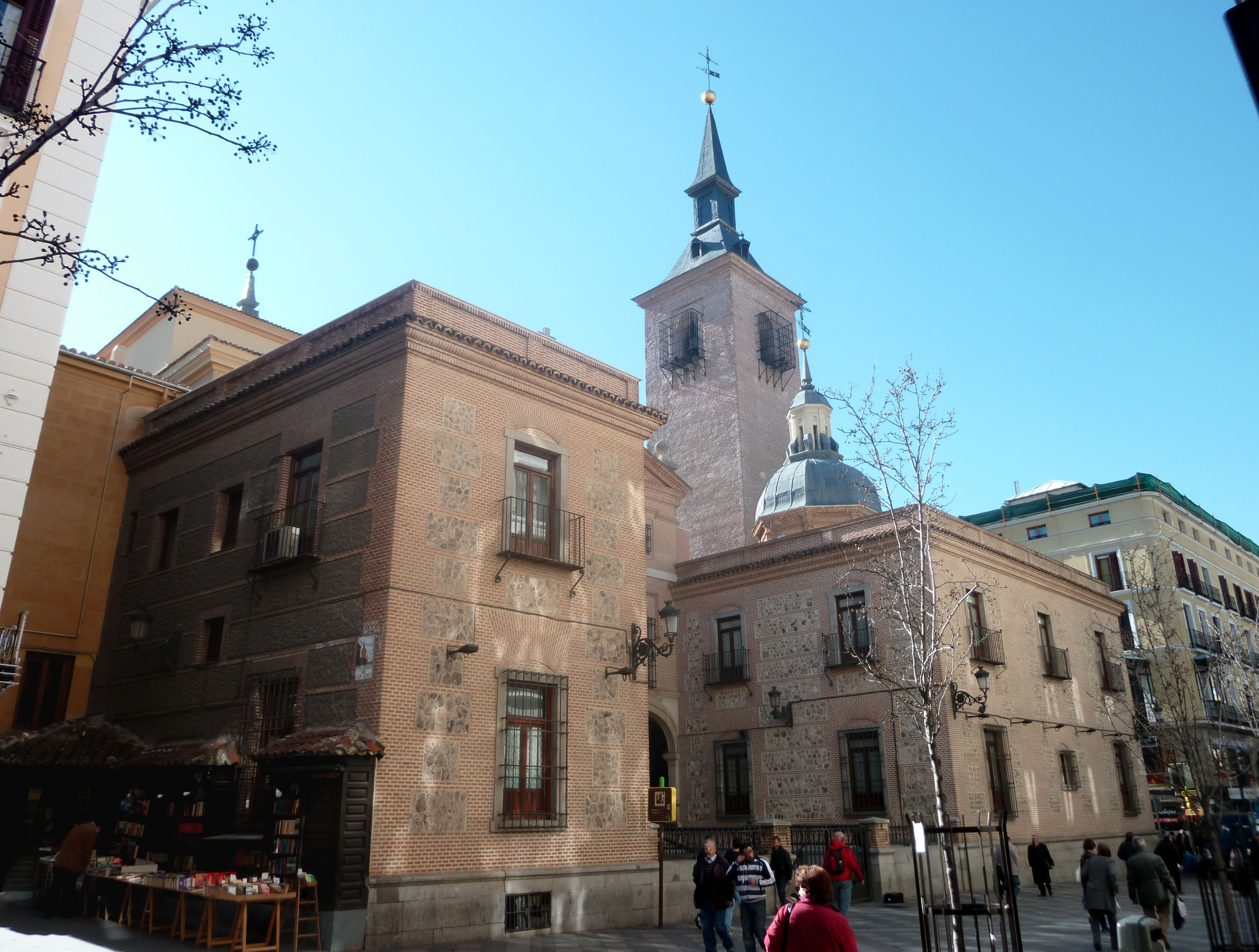 View of St. Genesius Church in Madrid (Spain) from the north-east angle.